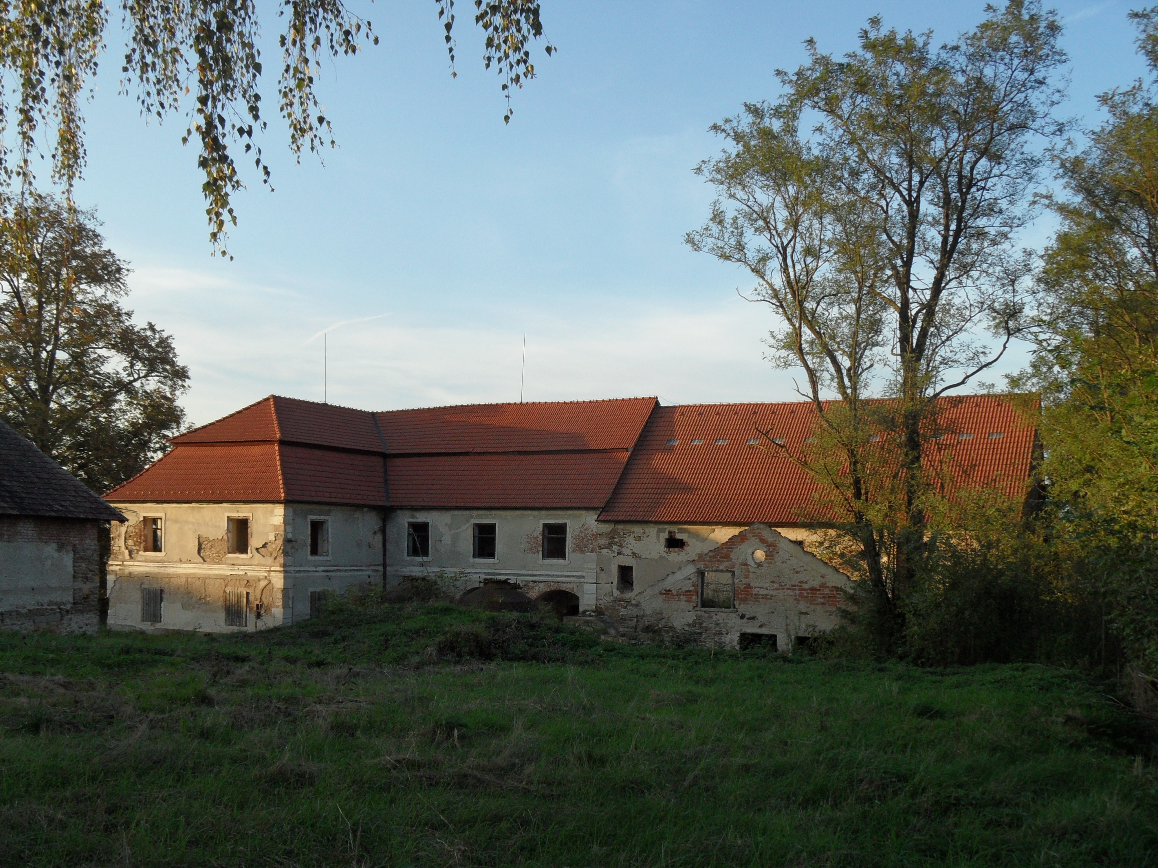 Kounice (Vlastějovice) A. Chateau, Kutná Hora District, the Czech Republic.